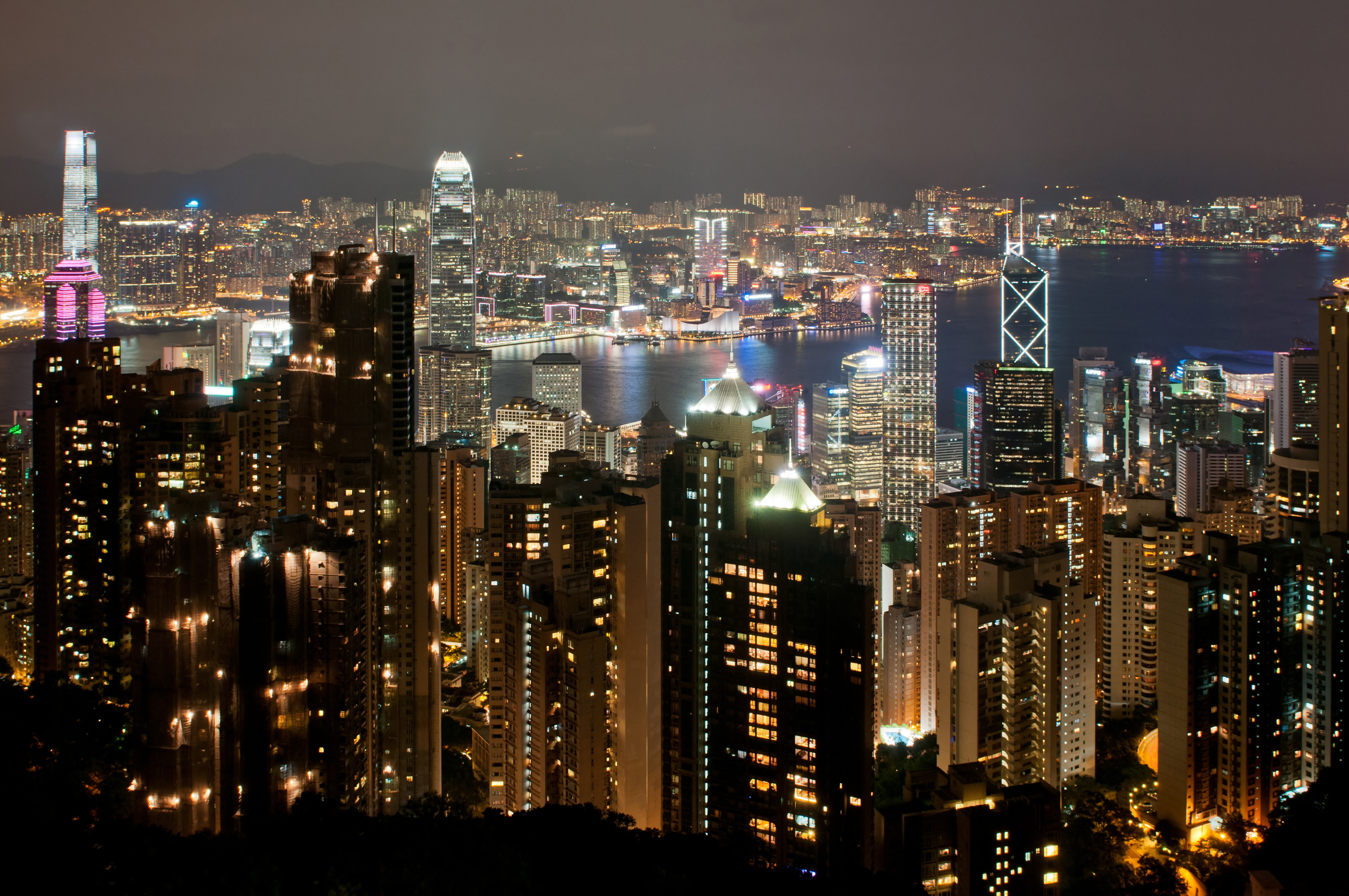 Hong Kong; View from Victoria Peak to Victoria Harbour and Kowloon